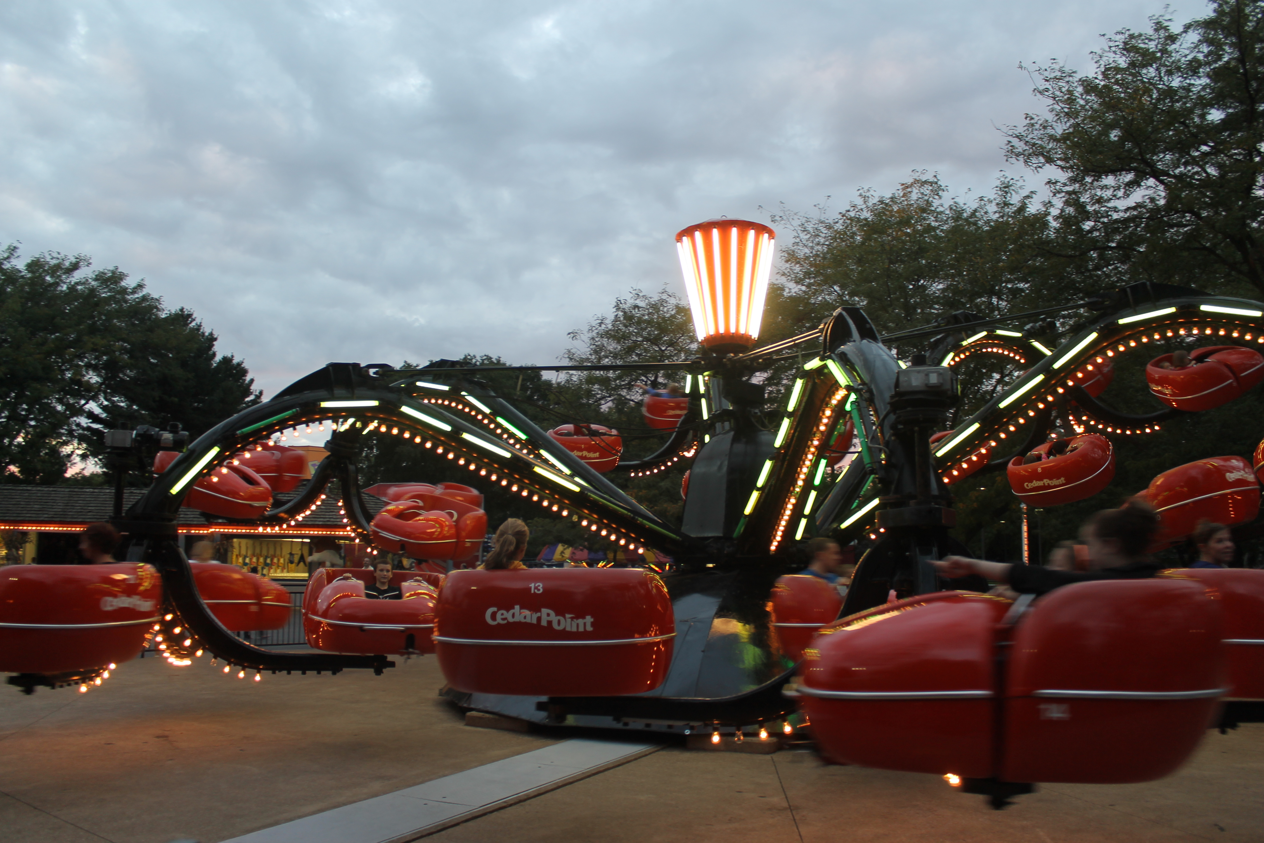 A farewell summer trip to Cedar Point (Sandusky, OH) with Ivy and Dan. The best roller coasters with no lines, amazing fun times, and apple picking the next day en route back! We had a blast in the Midwest.